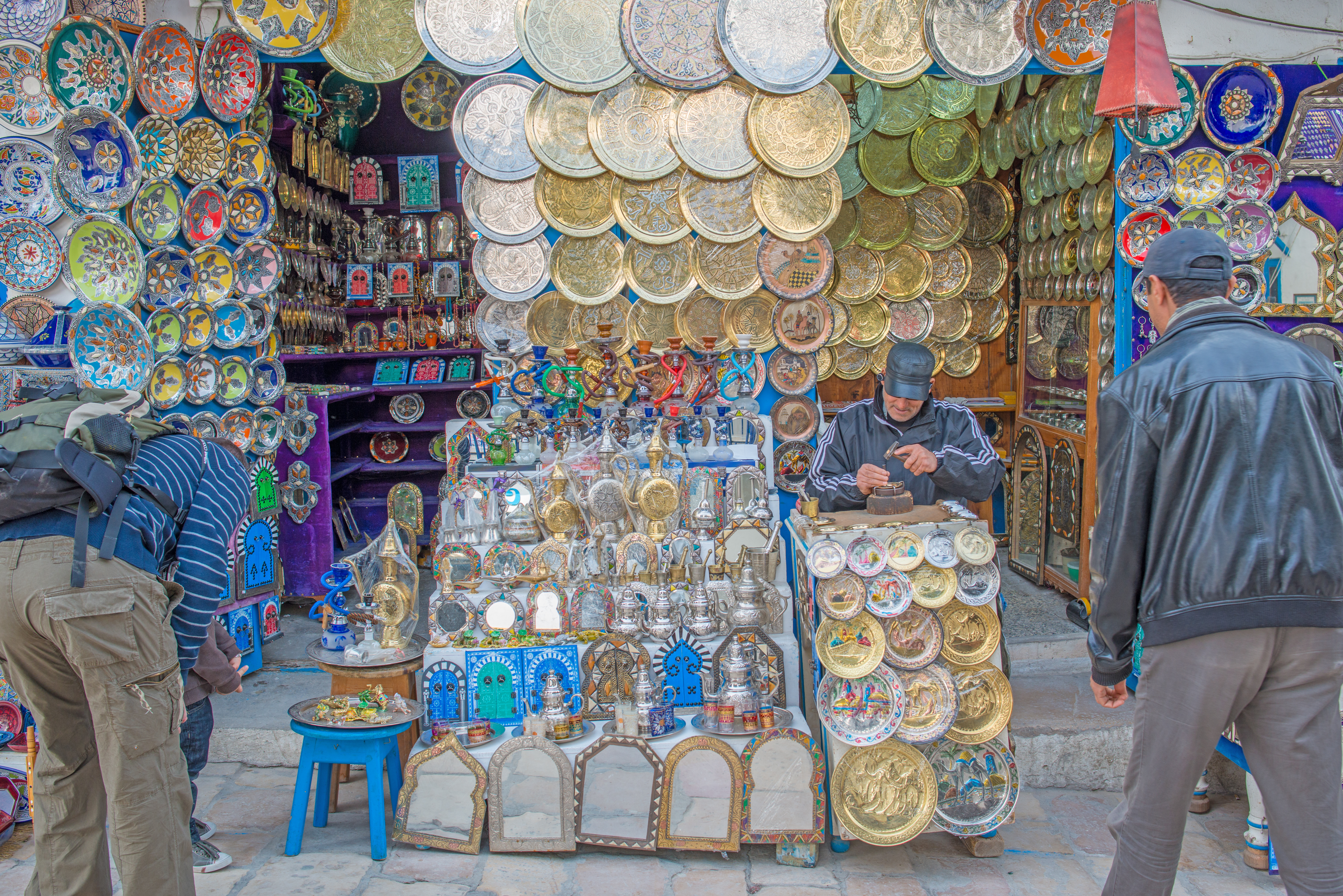 Tunis Tunisia February 2013